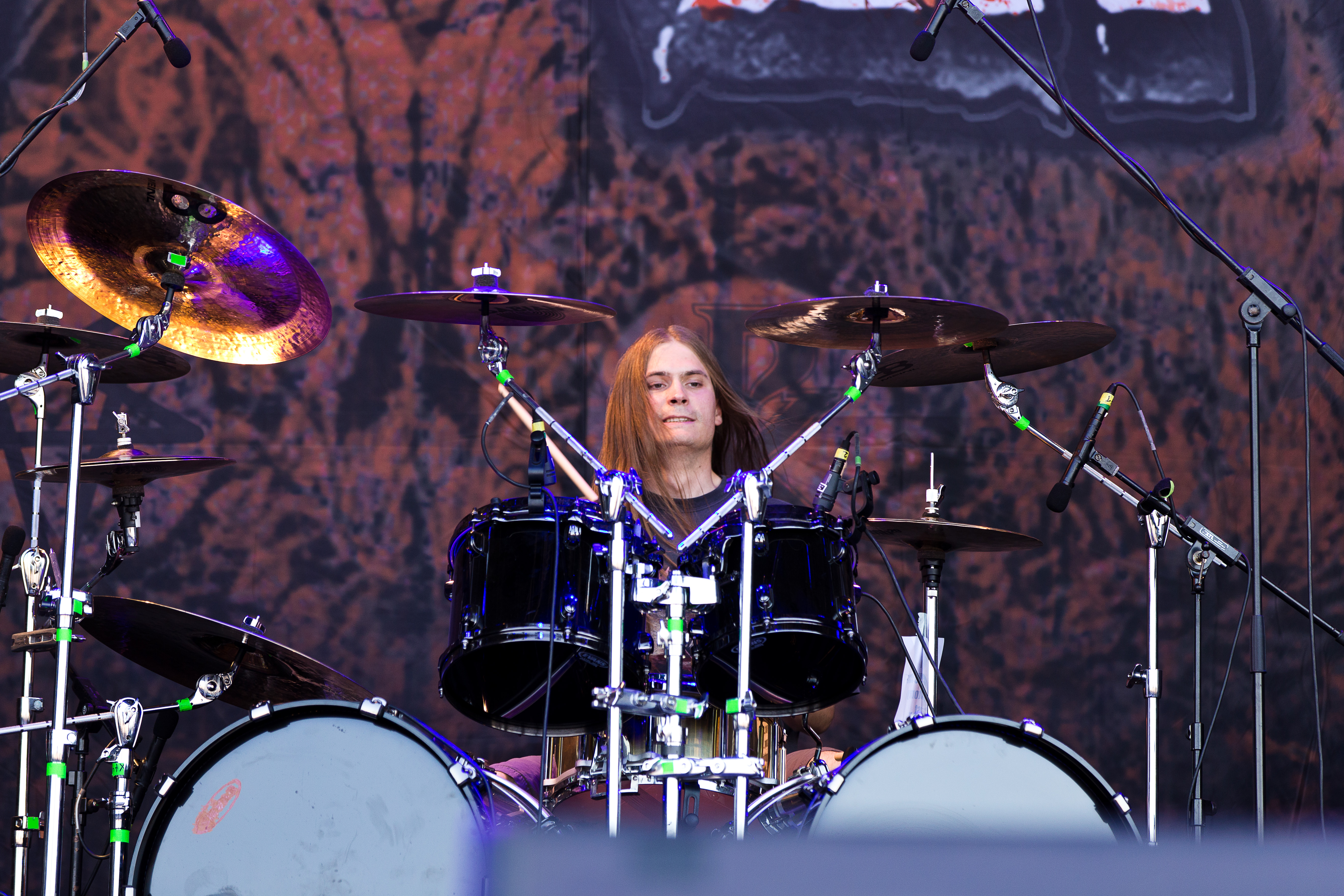 The German death metal band Postmortem at the Party.San Open Air 2015 in Obermehler-Schlotheim/Germany.